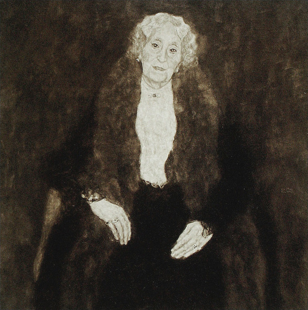 Portrait of Charlotte Pulitzer